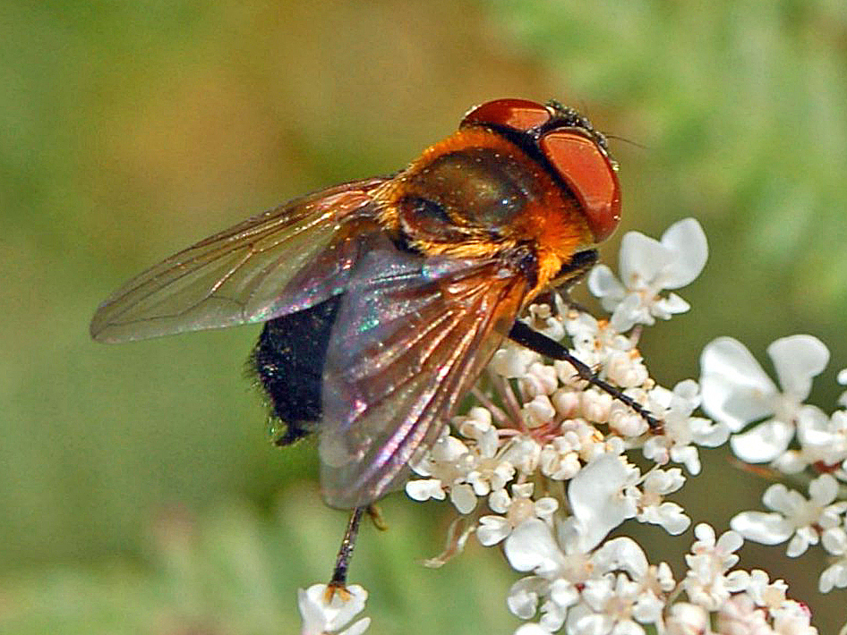 Phasia hemiptera. Female. Mount Antola. Genova, Italy